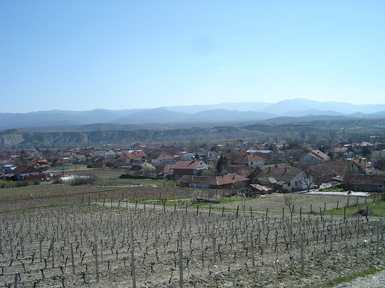 Vineyards in the village of Krivolak, Negotino Municipality, Macedonia